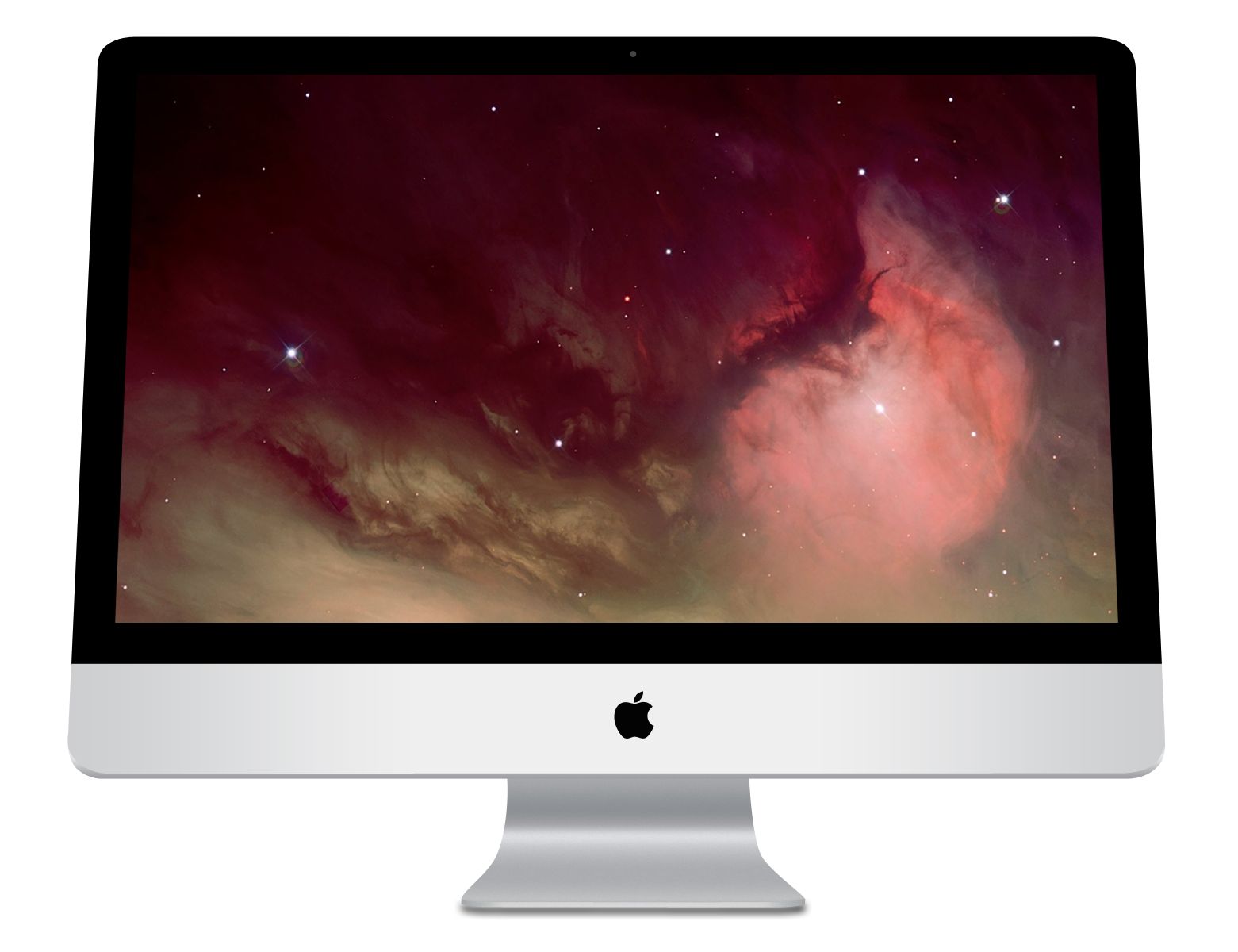 Intel-CPU based iMac with a 27 inch 16:9 aspect ratio screen, released by Apple in October 2009. (Intel based iMac models released prior to October 2009 used screens with a 16:10 aspect ratio. PowerPC-based iMacs released 1998–2005 used screens with a 4:3 or 16:10 aspect ratio.)